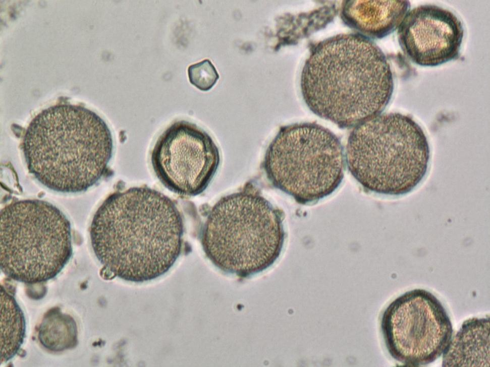 Pollen samples viewed by microspe